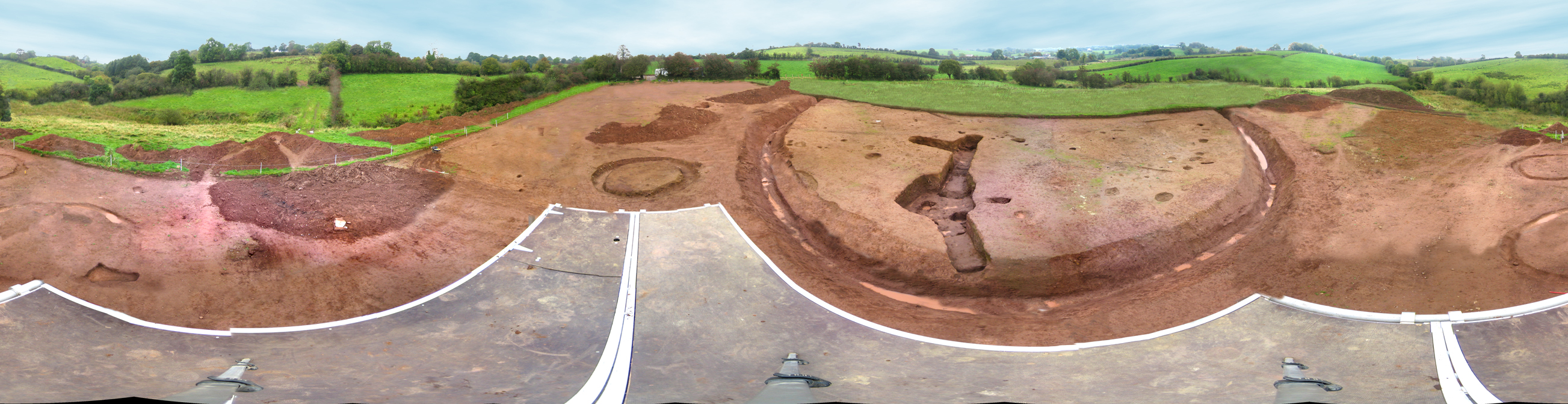 A souterrain in a ringfort or rath which has been half excavated in advance of road works in Ballygawley, County Armagh, Northern Ireland